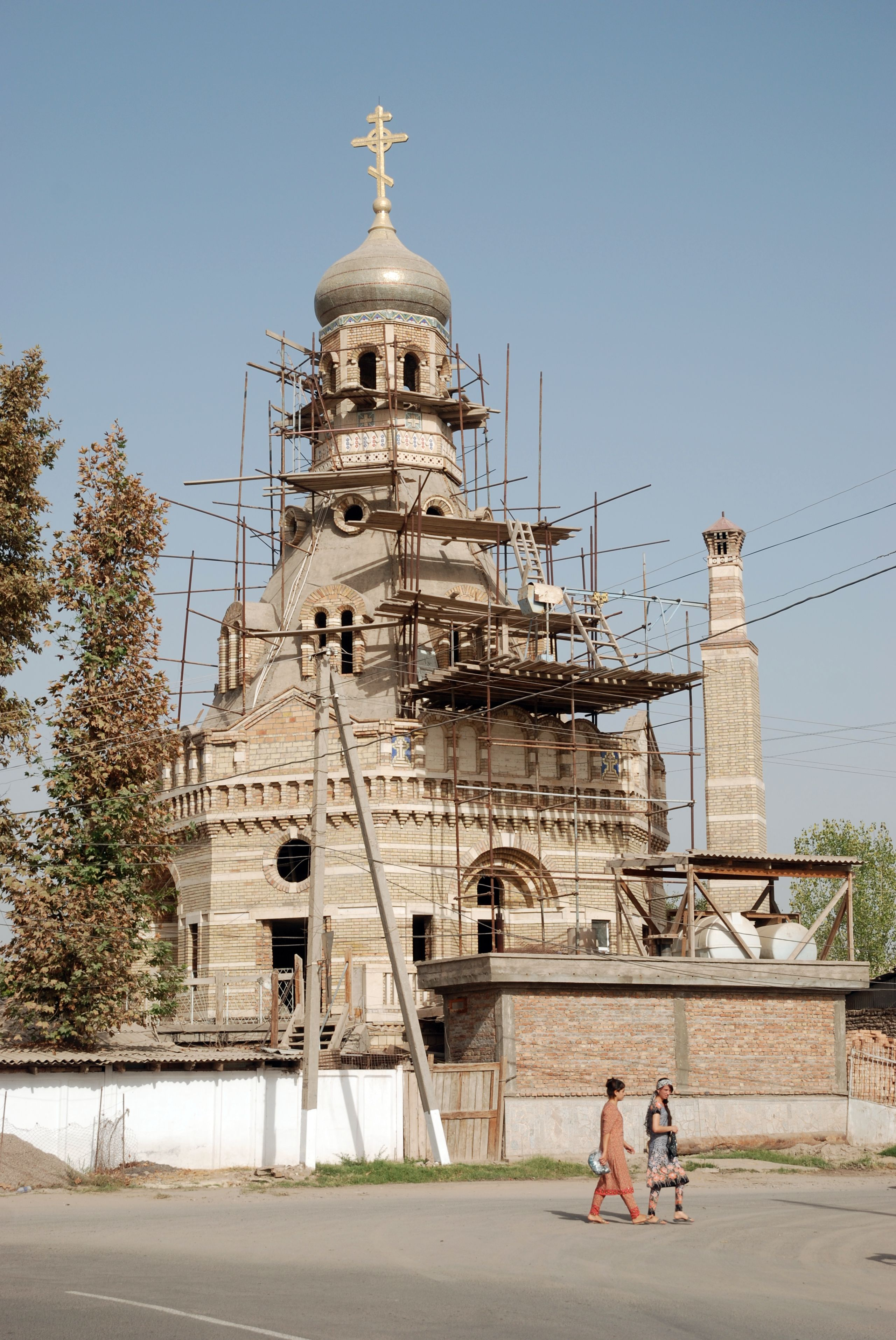 Qurghonteppa, orthodox church